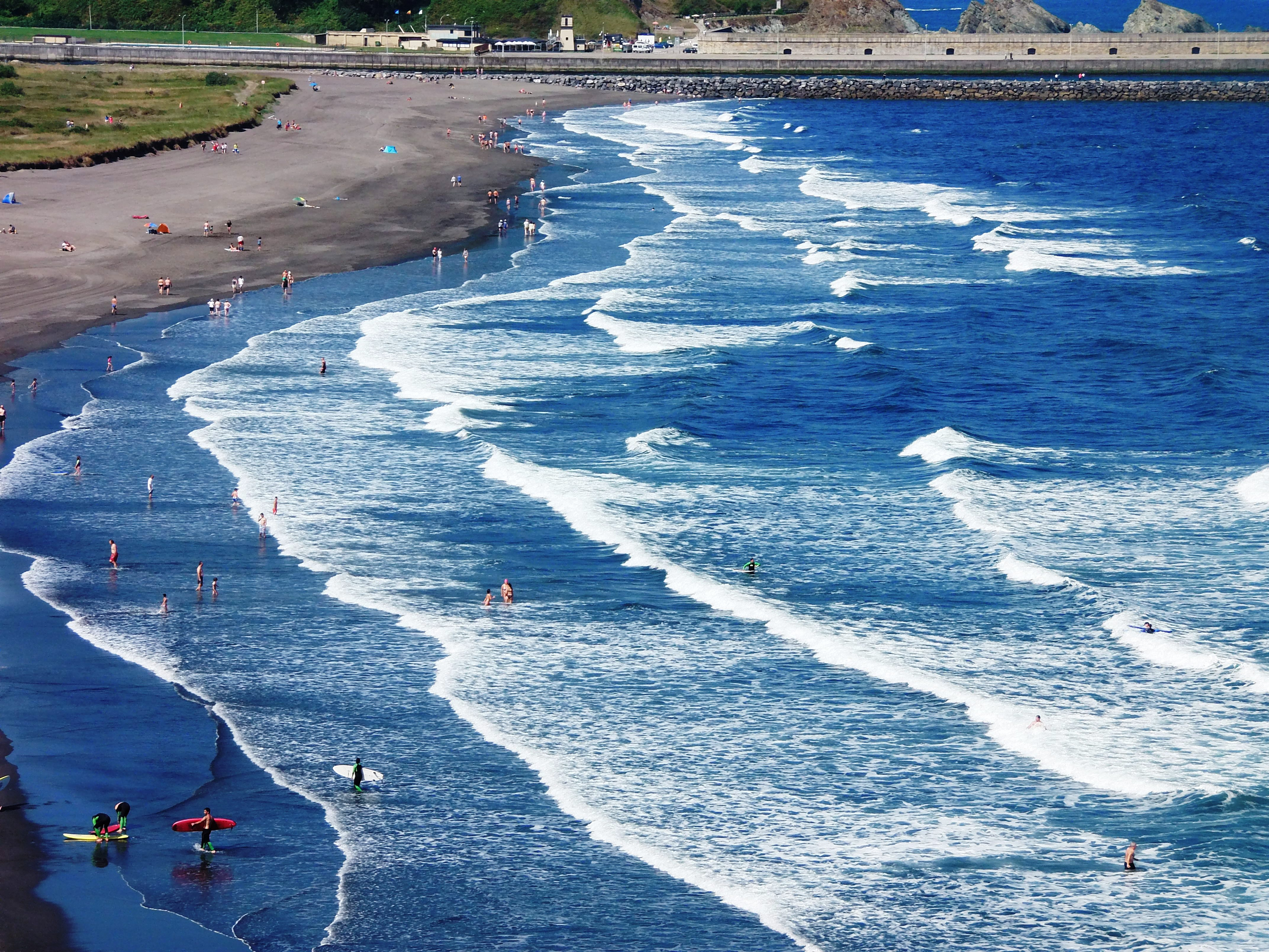 Rip currents are responsible for most the rescues and drowning at the beach